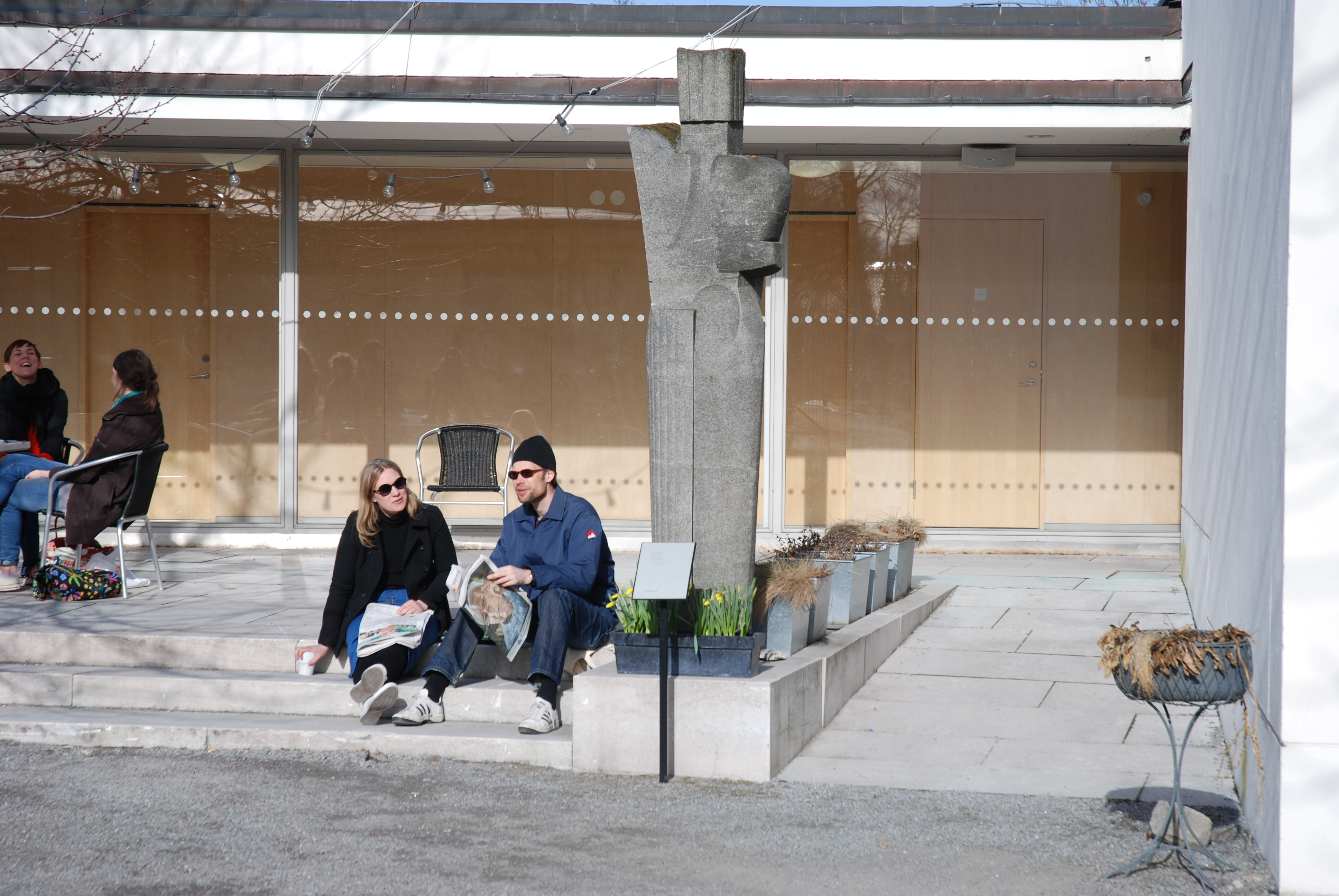 Christian Berg´s Monumentalfigur, outside the Architecture Museum, Skeppsholmen, Stockholm, Sweden